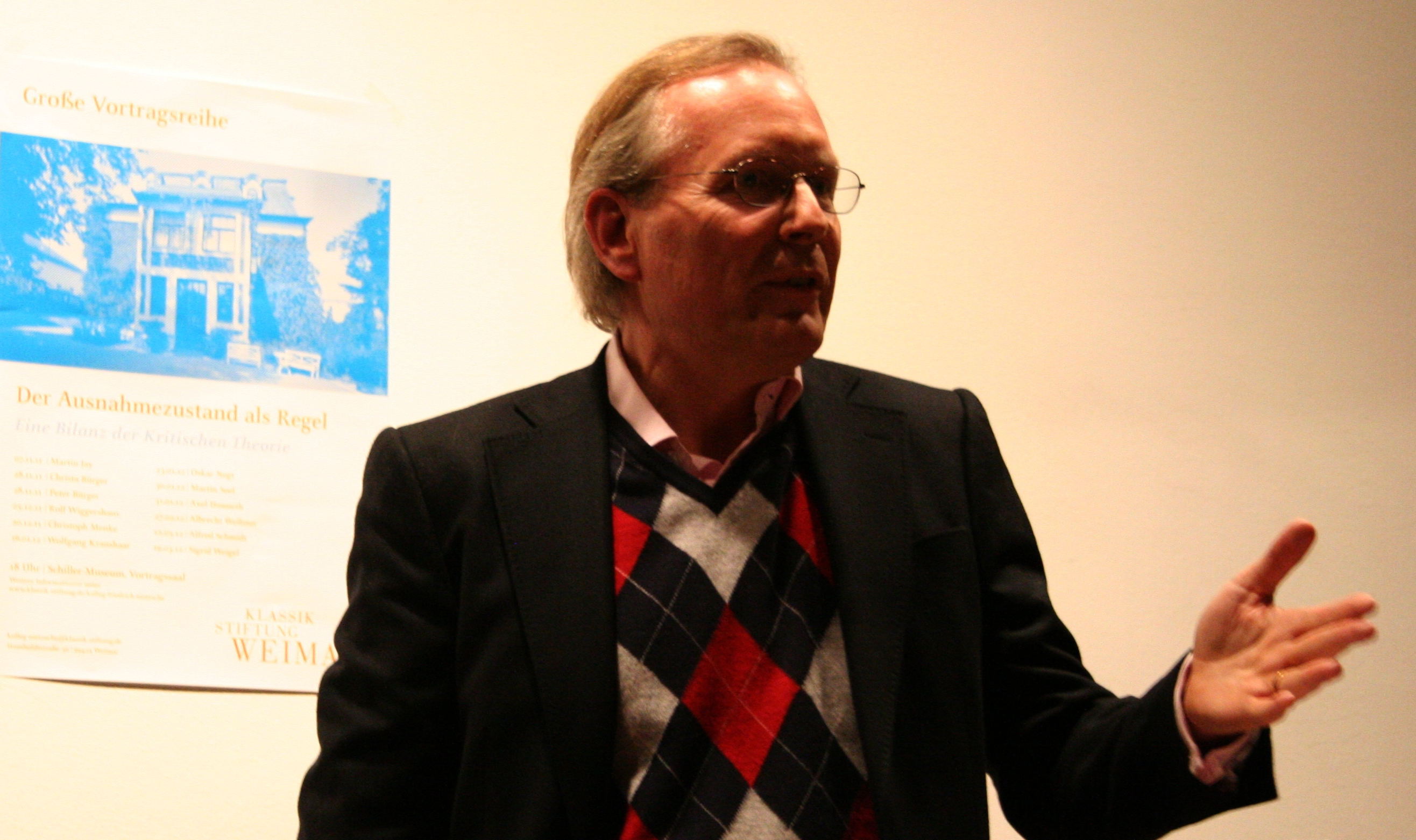 Christoph Menke in Weimar (2011)